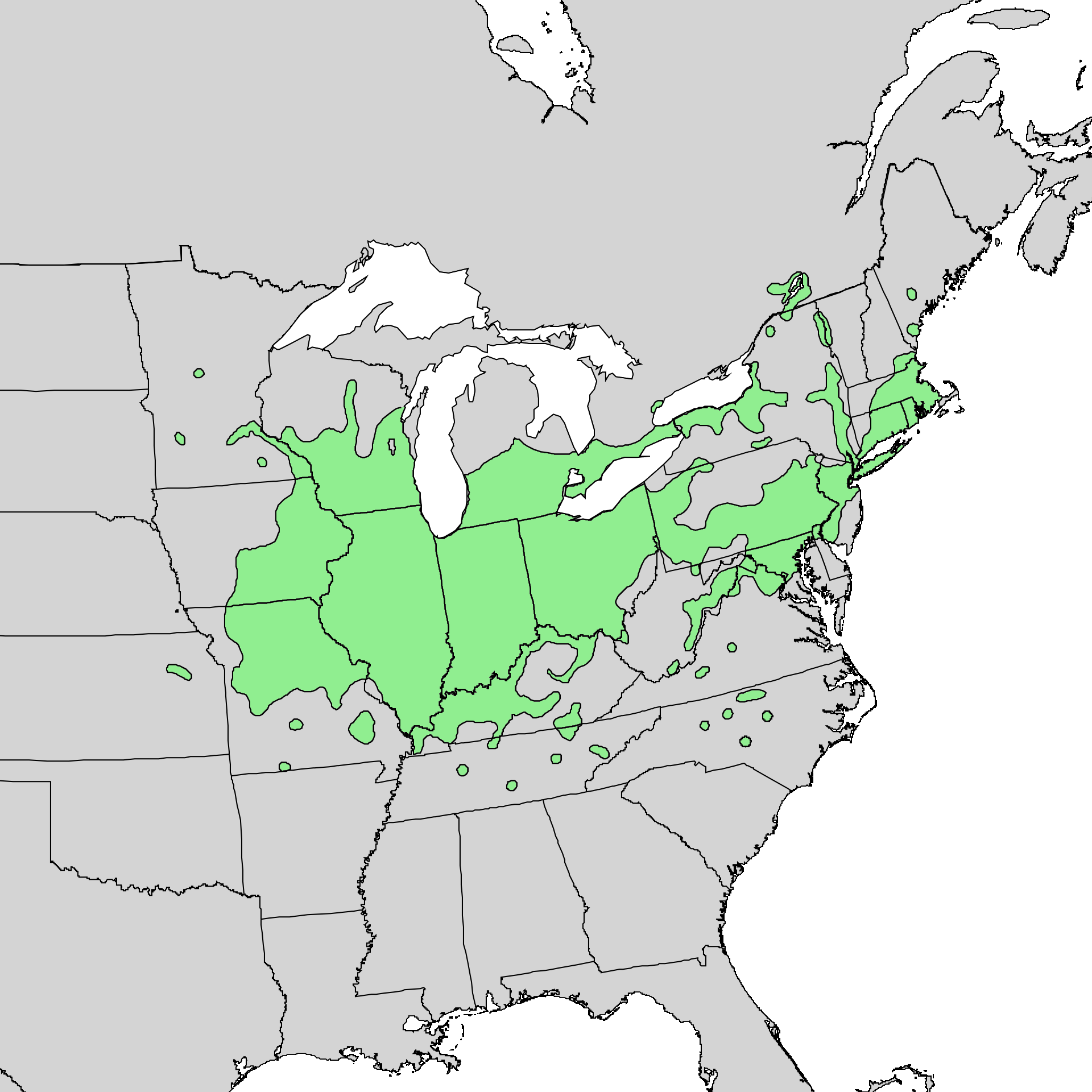 Quercus bicolor Willd. (1801) - Swamp white oak